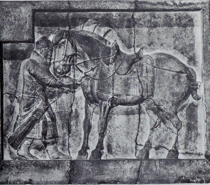 One of Emperor Taizong's horses from Zhaoling